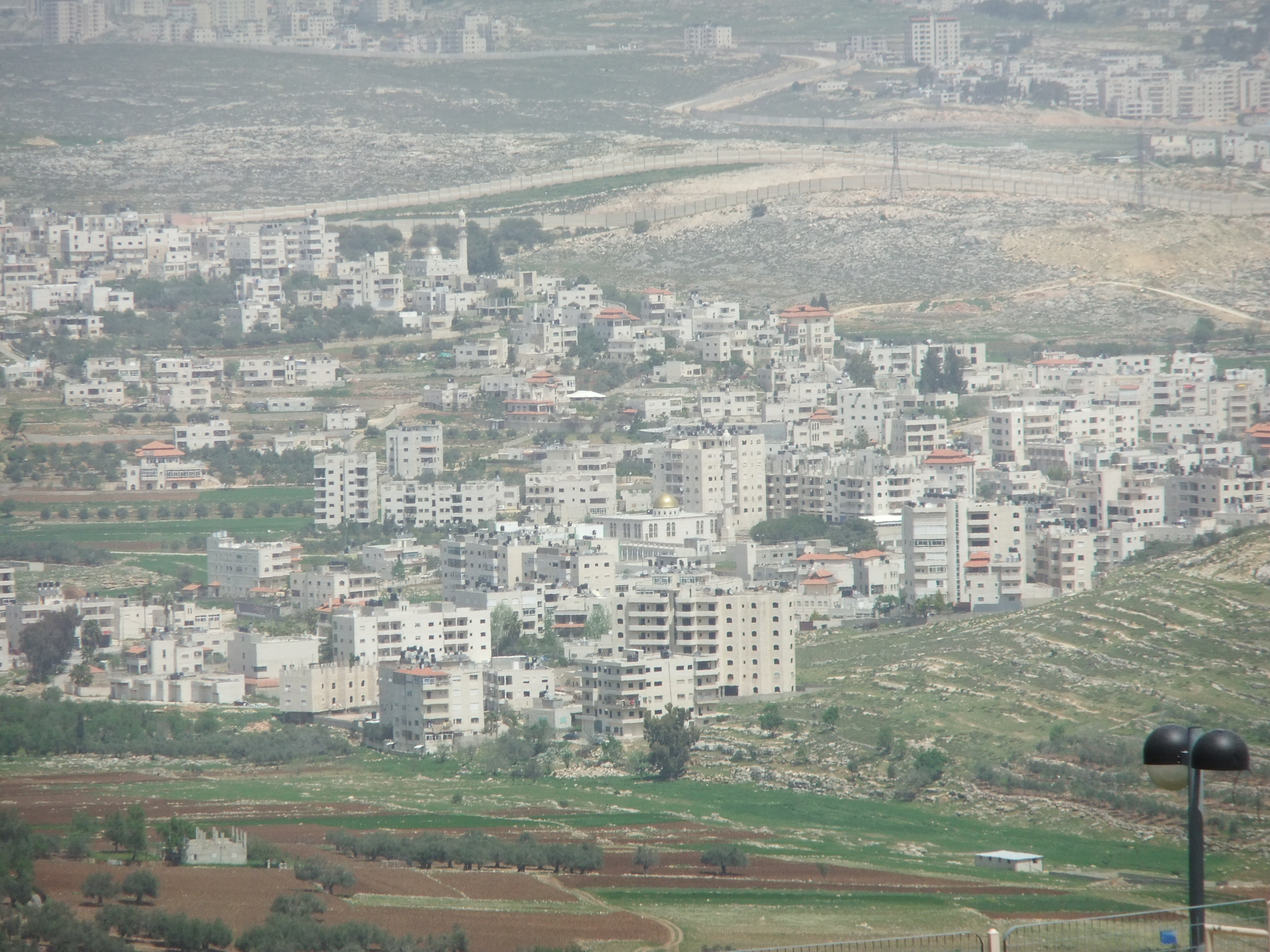 al-Judeira and west Bir Naballah in the front of the picture. Behind on the left is Ramallah and on the right are several houses of Kalandia